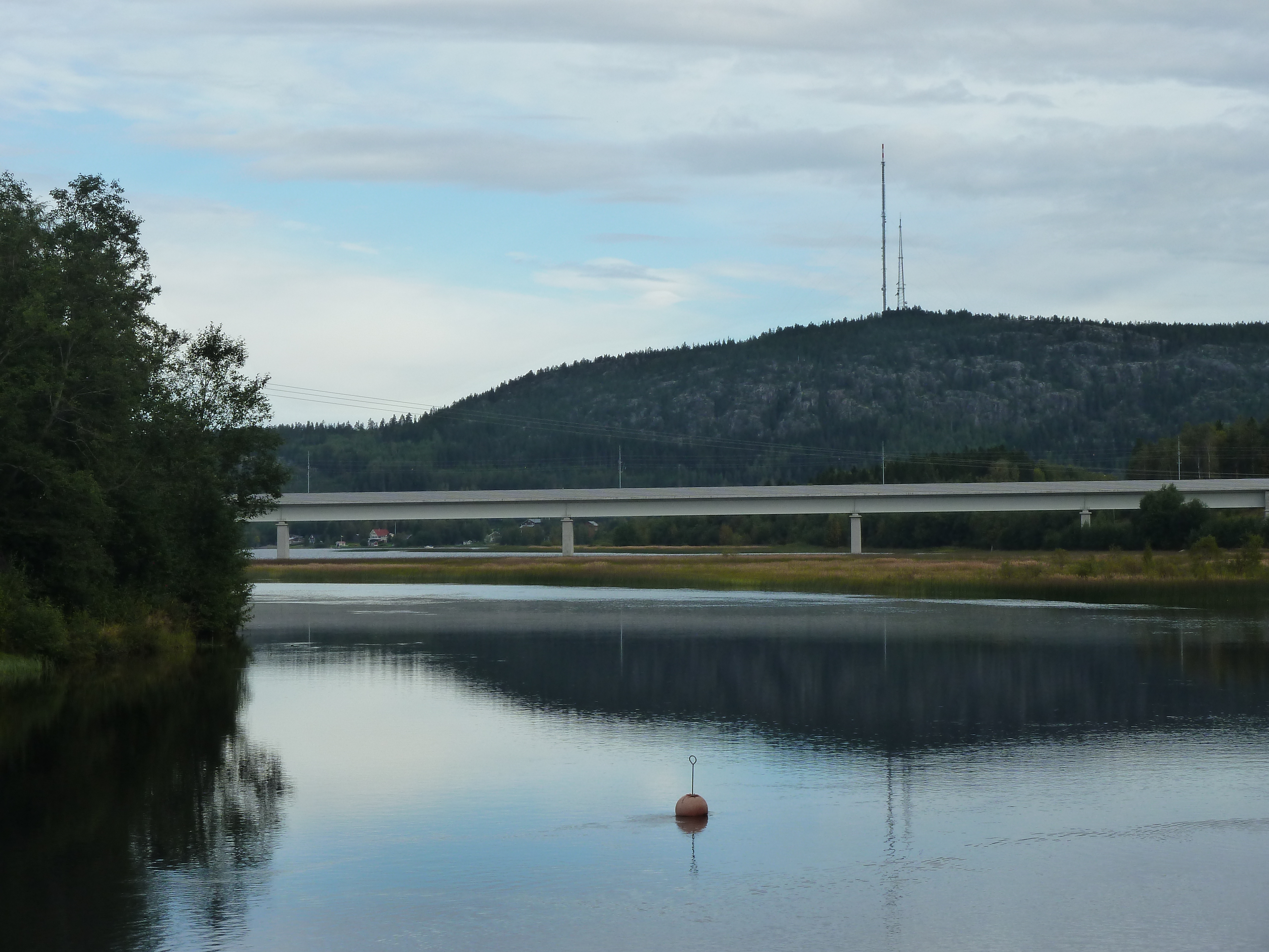 Veckefjärden, Ångermanlan, Sweden